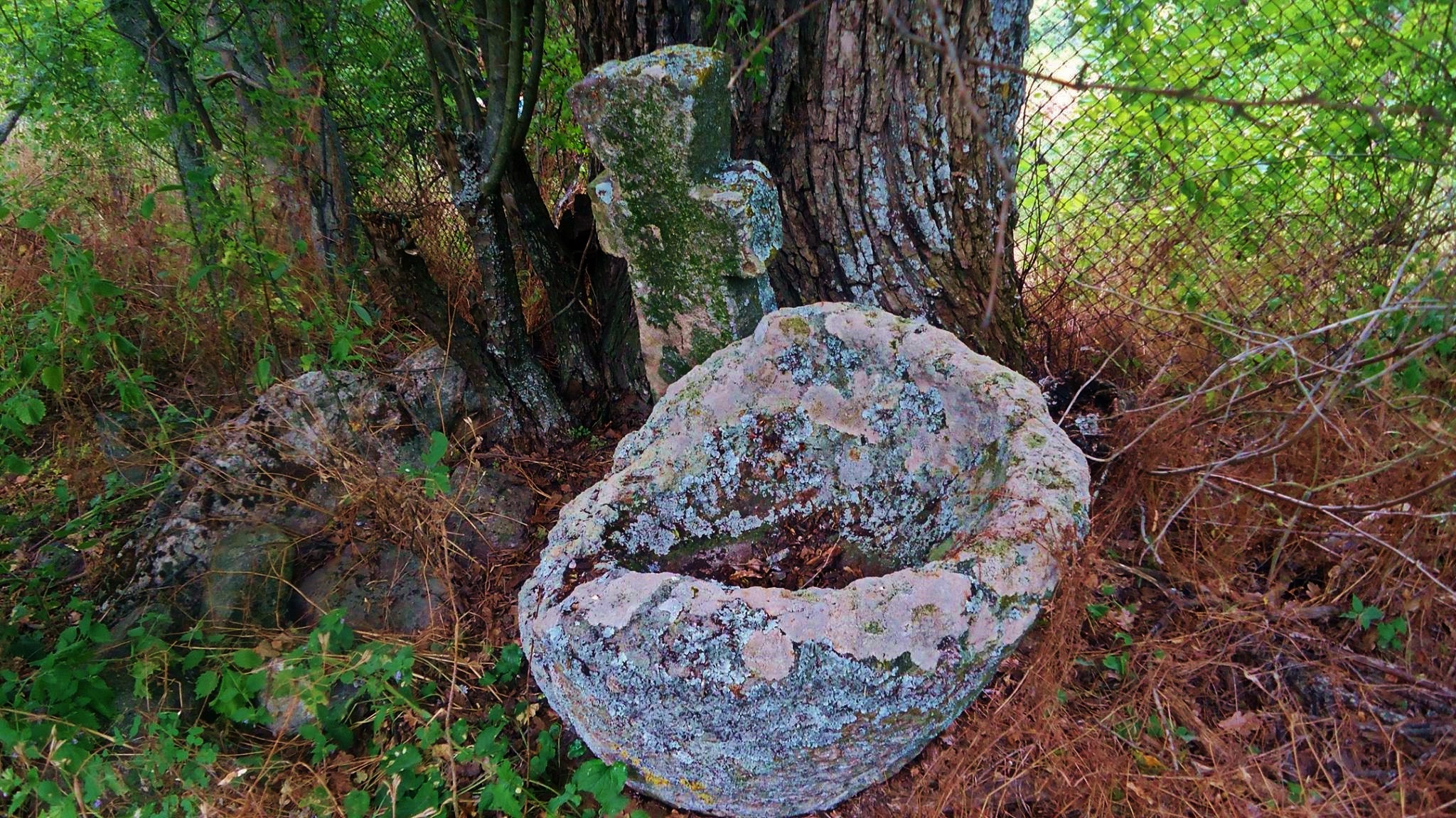 Christan cross Novakovska Neighbourhood Vetren Bulgaria